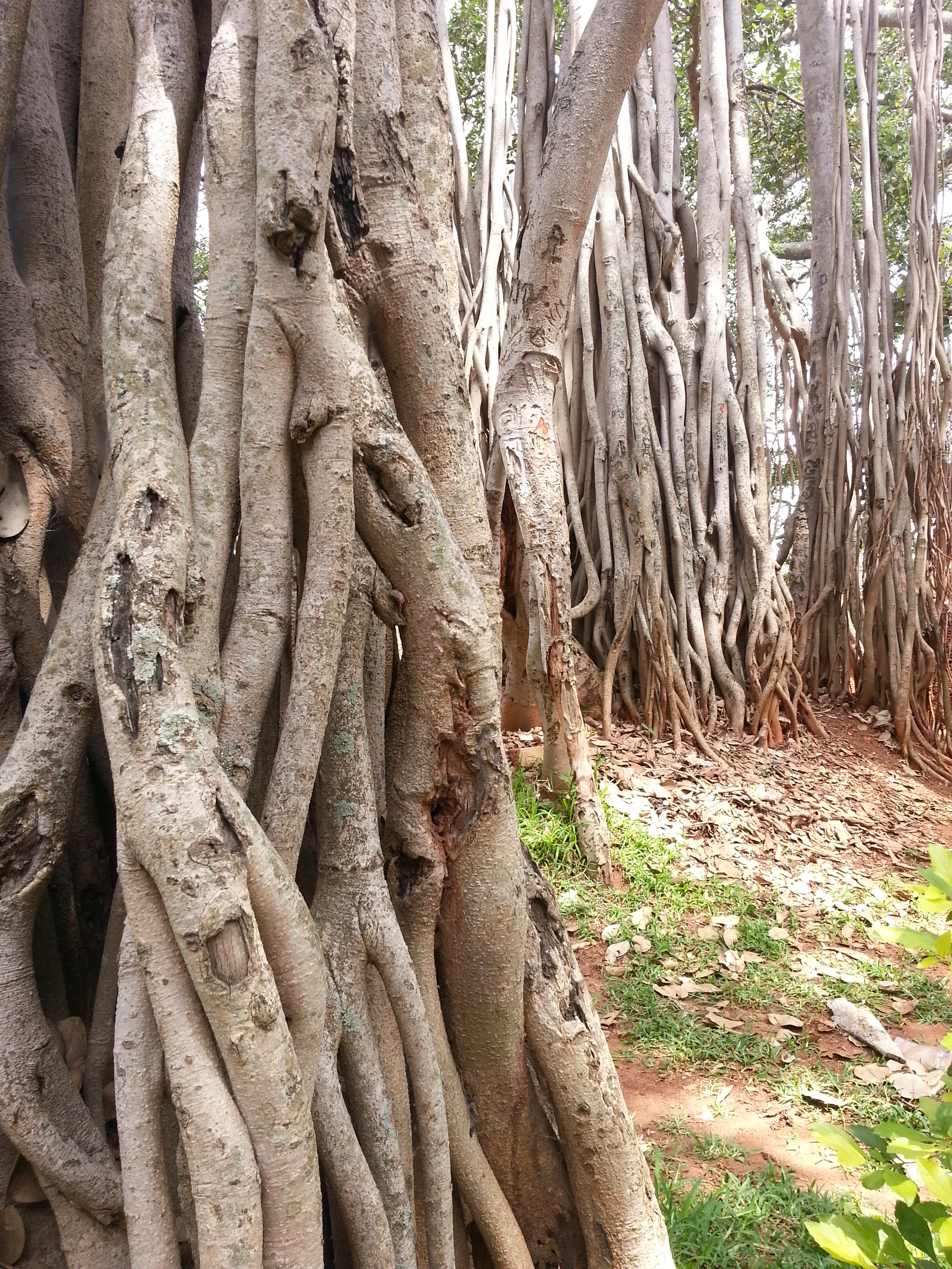 Some tree roots out of the numerous roots which create the illusion of many trees.